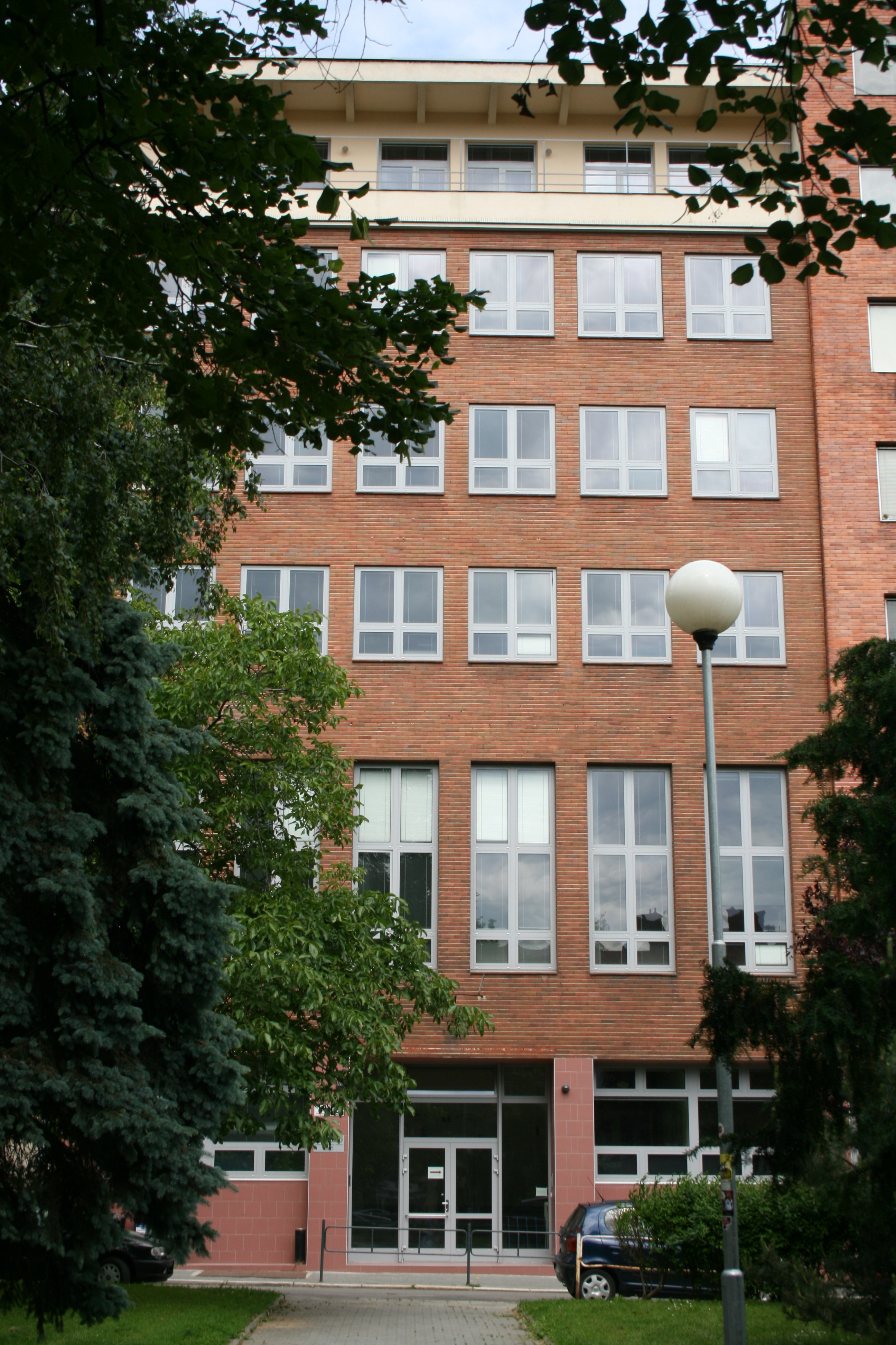 Faculty of Arts, Masaryk University - building 'N', functionalist building by Heinrich Blum, Brno, Czech Republic. Česky: Filozofická fakulta Masarykovy univerzity, budova N, Janáčkovo nám. 2a. Dříve Přírodovědecká fakulta, původně Masarykova německá lidová vysoká škola. Funkcionalistická budova od Heinricha Bluma z roku 1931. Celkový čelní pohled.